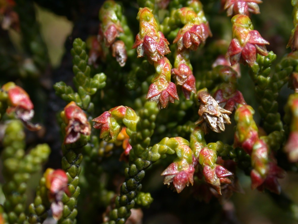 Pherosphaera hookeriana, Mt. Field